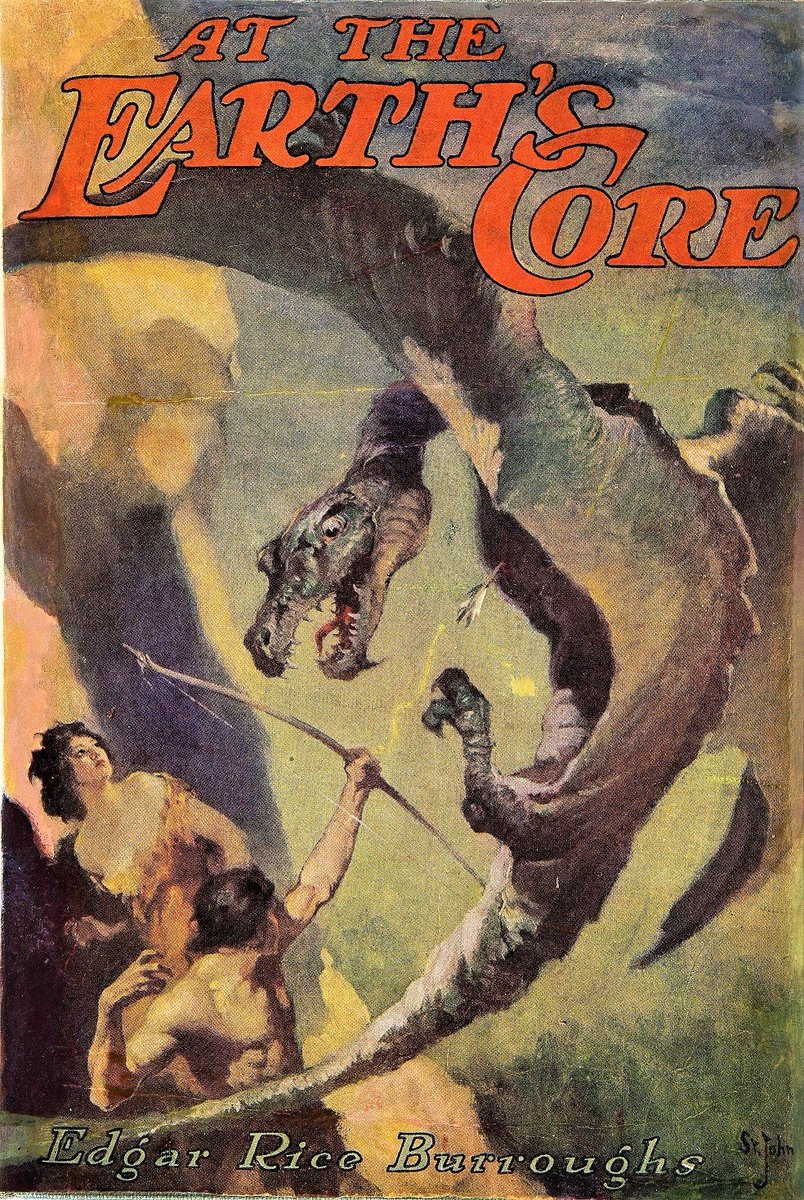 Dust-jacket illutration by J. Allen St. John for At the Earth's Core by Edgar Rice Burroughs